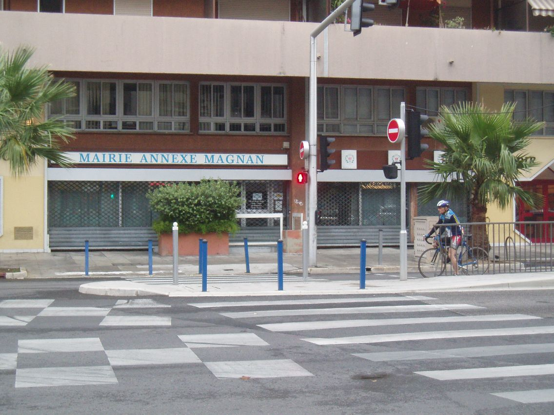 Town hall annex in the Magnan quarter of Nice.